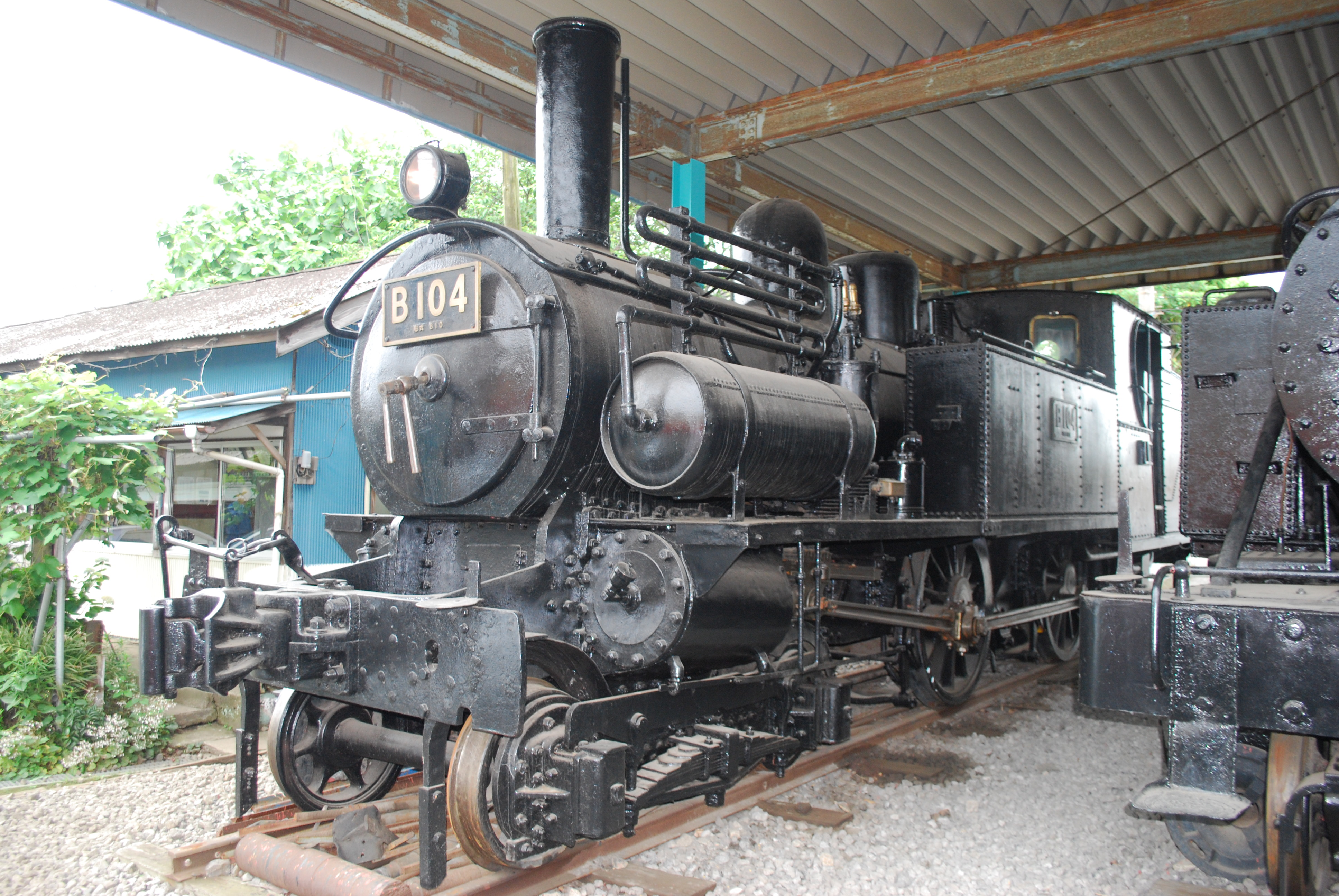 Class B10 steam locomotive B104 preserved at the Kominato Railway in Chiba Prefecture, Japan